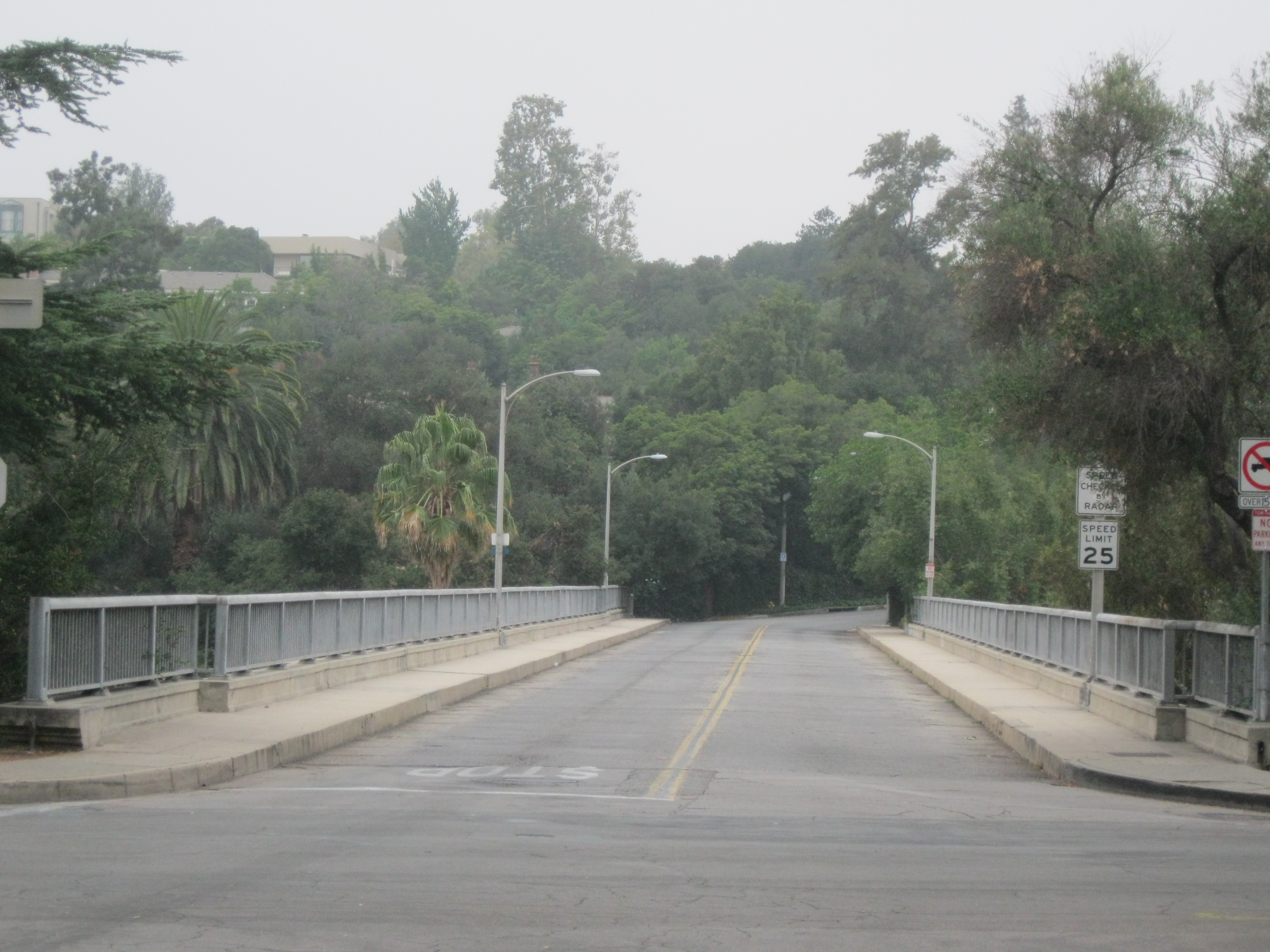 La Loma Bridge in Pasadena, CA, listed on the National Register of Historic Places.